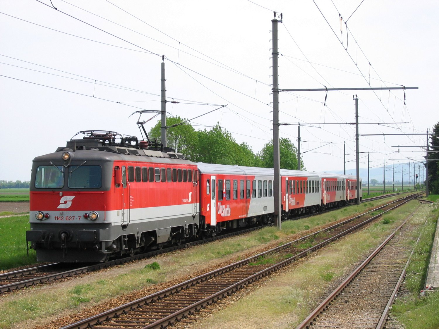 ÖBB City Shuttle push and pull train with electric engine 1142 627-7 in Michelhausen station in Lower Austria.